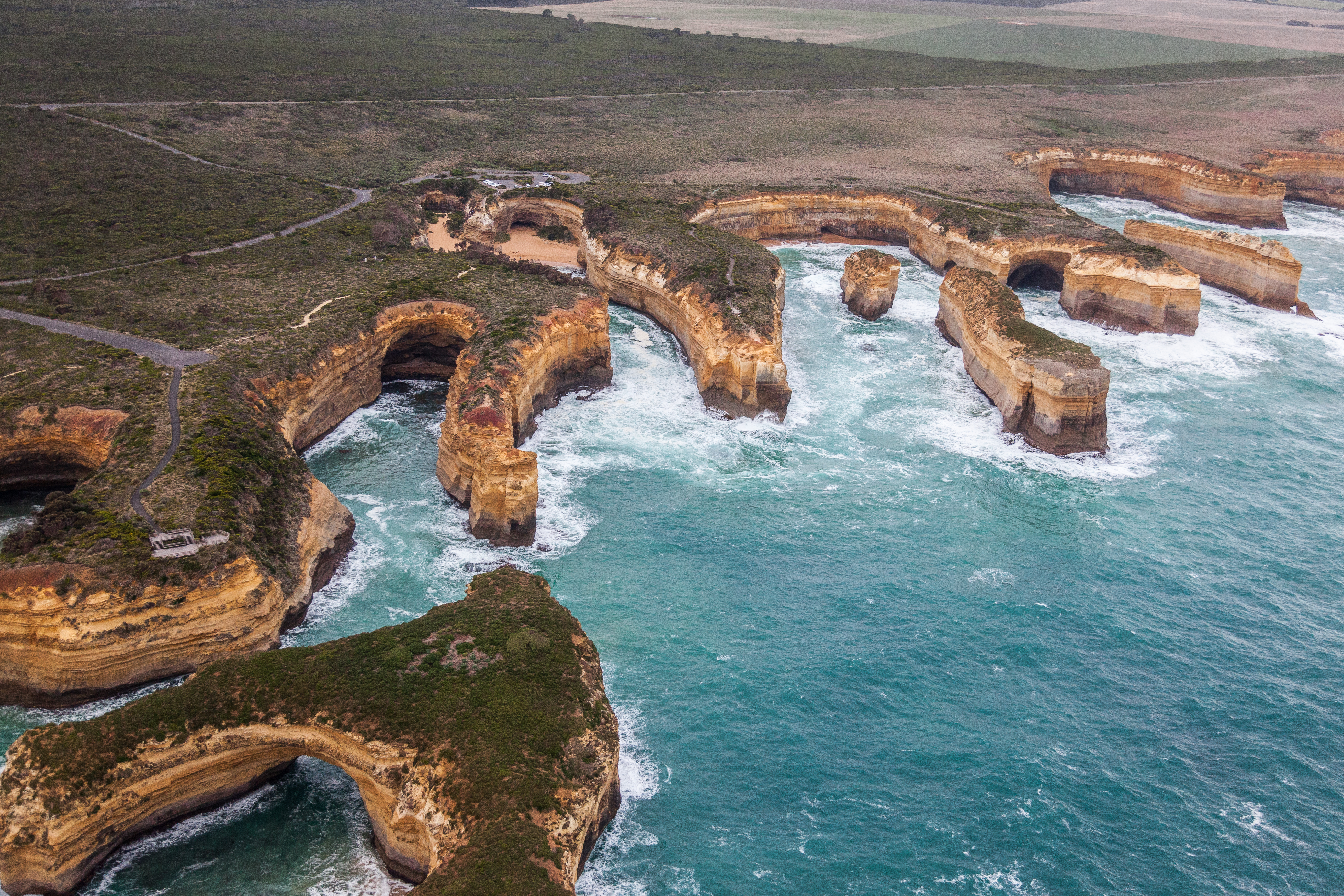 Loch Ard Gorge, near Port Campbell, Victoria, as seen from the air.